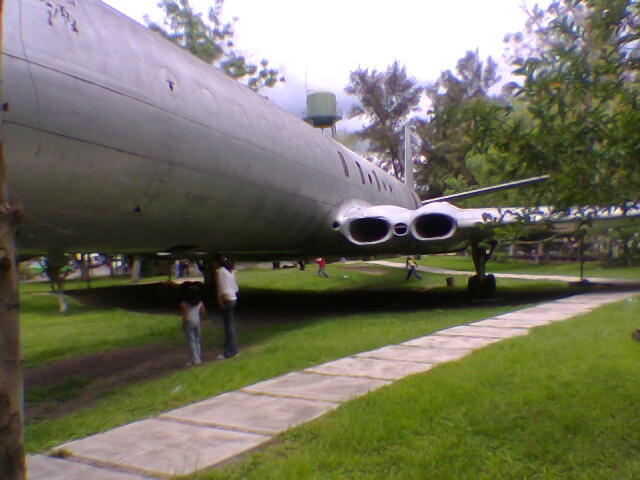 First, I thougt it was a Tupolev Tu-104... taking a closer look I discovered it was a DeHavilland Comet 4! Only 76 were made, and not only is a beautiful plane, but pure history!.